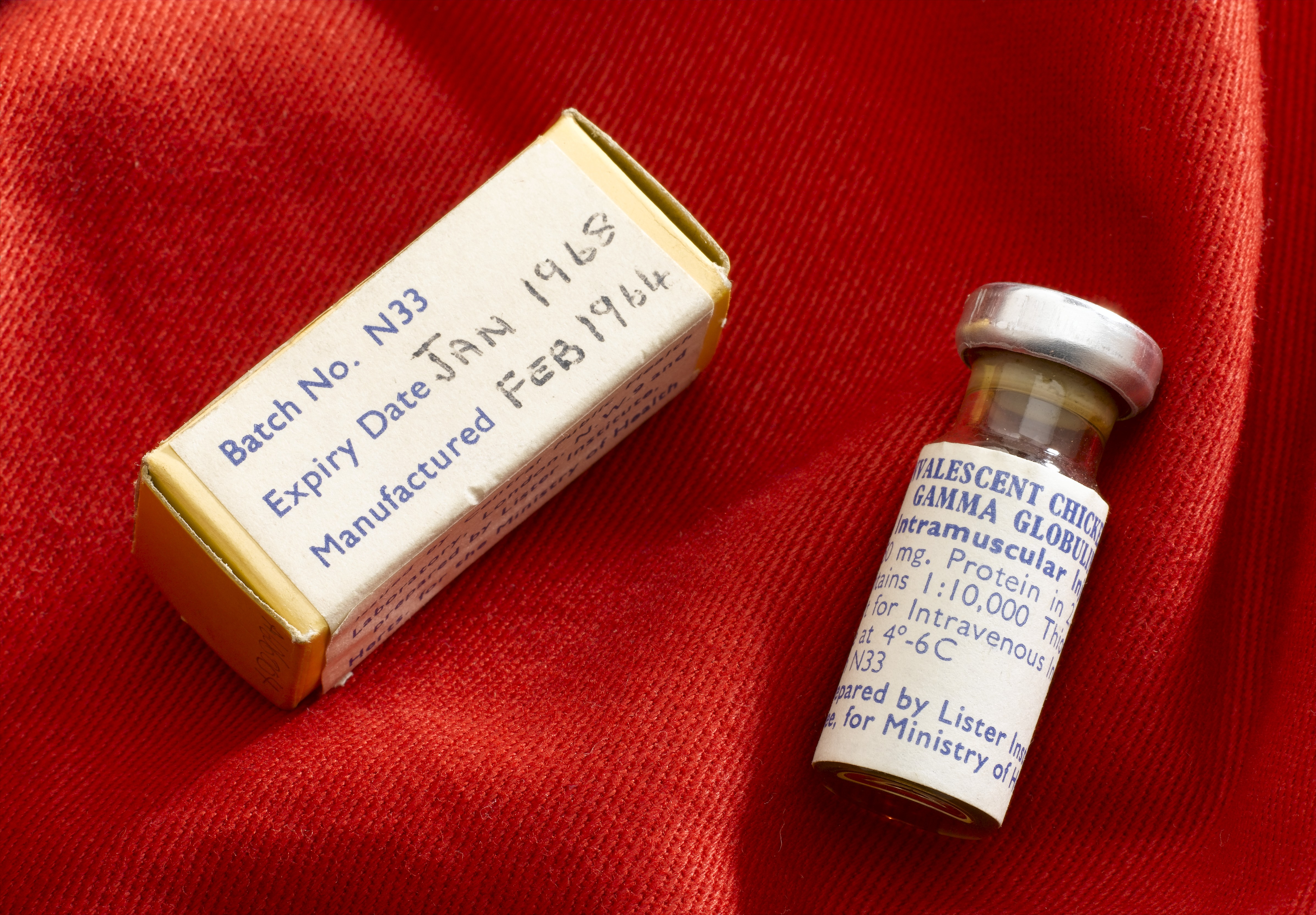 This glass bottle contains immunoglobulin to fight against chickenpox. Immunoglobulin is a type of antibody found in blood plasma. Taken from donors recovering from chicken pox, immunoglobulin is injected into those who are at risk from the disease. These include premature babies, whose immune system would not be able to cope with the infection. Chickenpox is a common and highly infectious childhood virus which many people experience. An attack gives most people life-long immunity. This sample was produced for the British Ministry of Health. maker: Unknown maker Place made: England, United Kingdom Wellcome Images Keywords: chicken pox; antibody; Immunoglobulins; virus; immunoglobulin; Viruses; bottle; Premature Birth; Plasma; Chickenpox